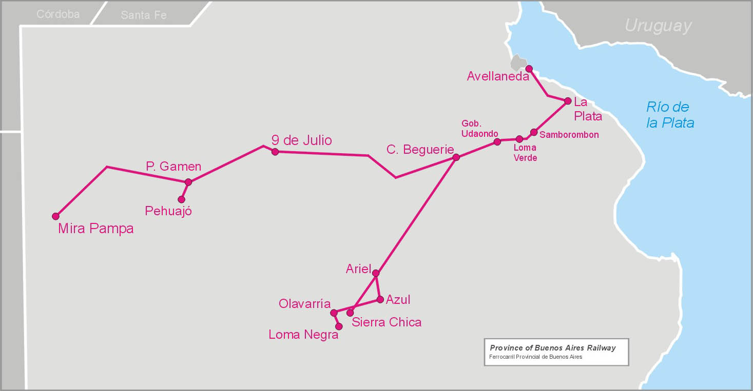 Map of "Ferrocarril Provincial de Buenos Aires", a State-owned railway company in Buenos Aires Province of Argentina. It was definitely closed in 1977.